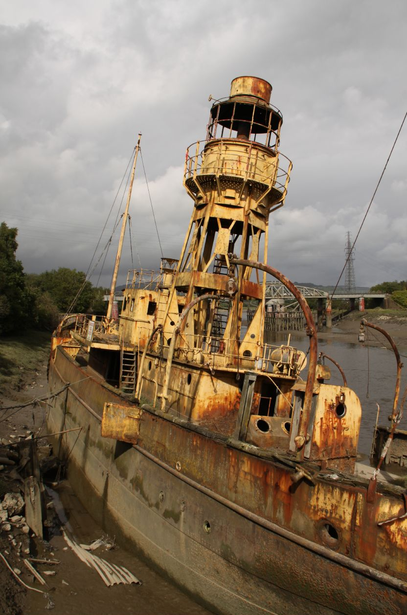 Aground at the scrap yard